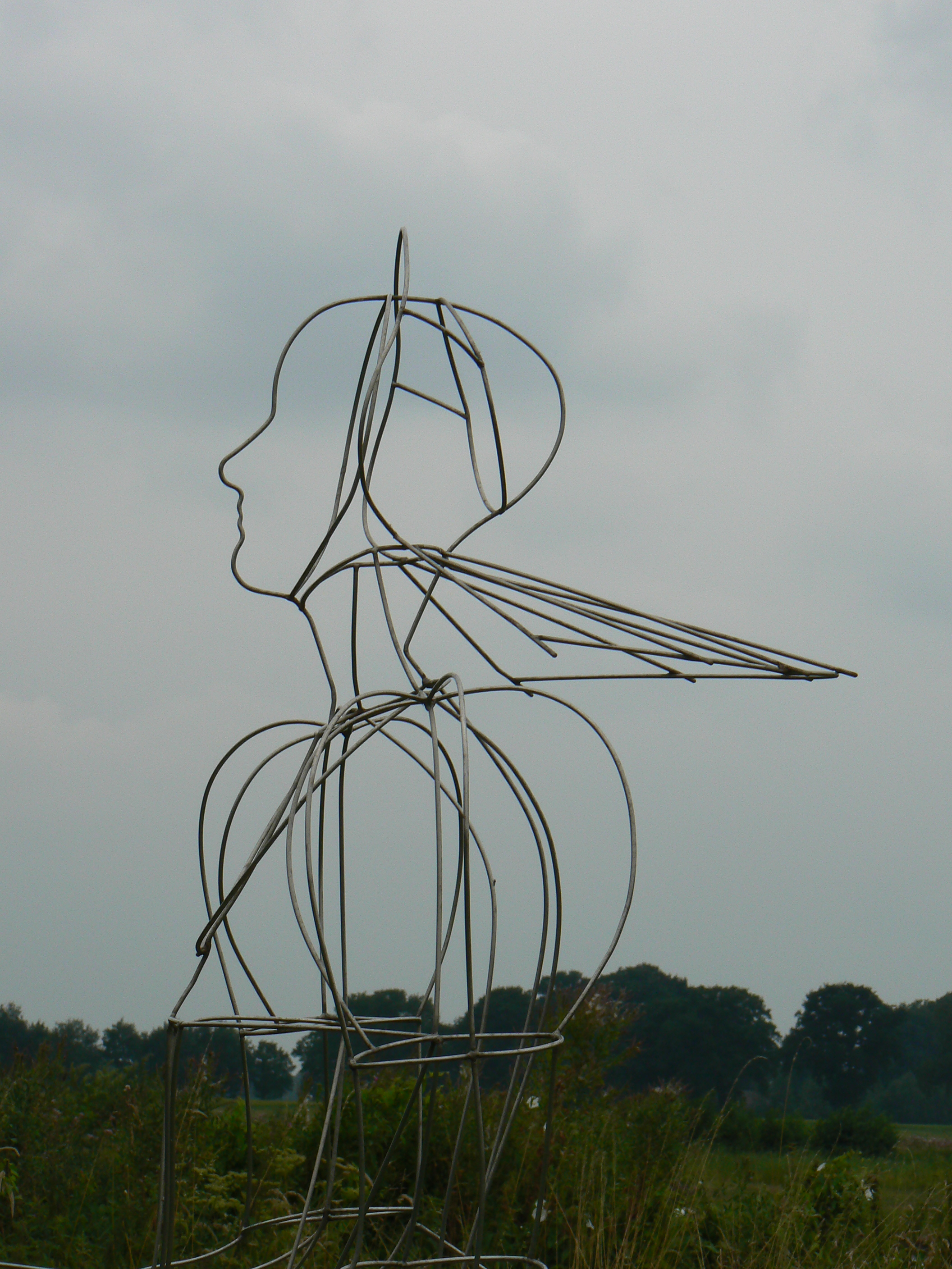 two piece sculpture (detail) by Ilya and Emilia Kabakov : Wortlos (1999) on the Dutch/German border between Gramsbergen/The Netherlands and Laar/Germany